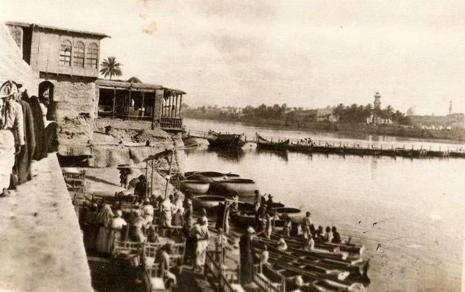 Bab al-Seef, Al-Karkh - 1917